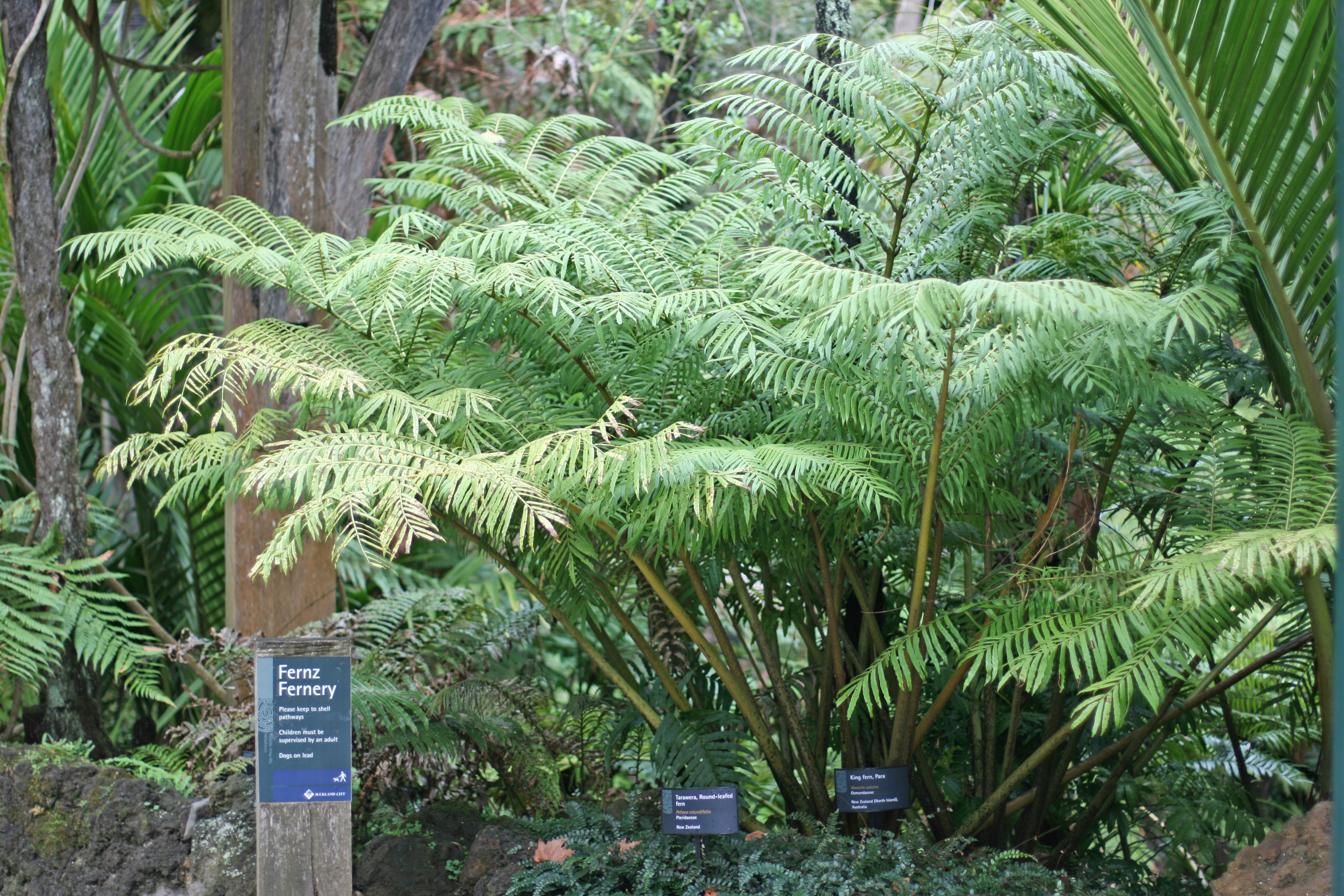 Marattia salicina, King fern, Auckland, New Zealand. A large fern native to New Zealand and the South Pacific. At the Fernz Fernery, Auckland Domain.